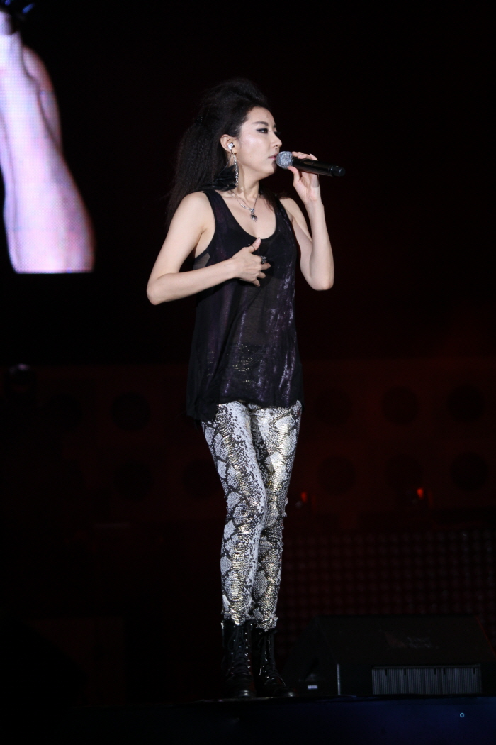 Kim Wan-sun performing at Expo 2012 Yeosu Korea.